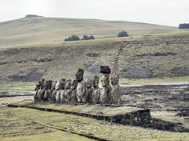 View of Ahu Tongariki on Easter Island with its Moais restored. Poike Volcano is in the background. Picture took when i was travelling in Easter Island in 2003. More pictures of Easter Island can be found here